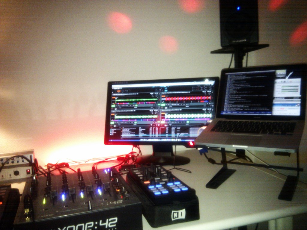 Taken with picplz at Studio 5-0 in Utrecht, The Netherlands. Native Instruments Audio8 DJ professional audio interface for DJs Icon Neo Phantom 48V Mic Preamp Native Instruments Traktor Kontrol X1 performance controller (×2) Allen & Heath Xone:42 4ch Club/DJ Mixer